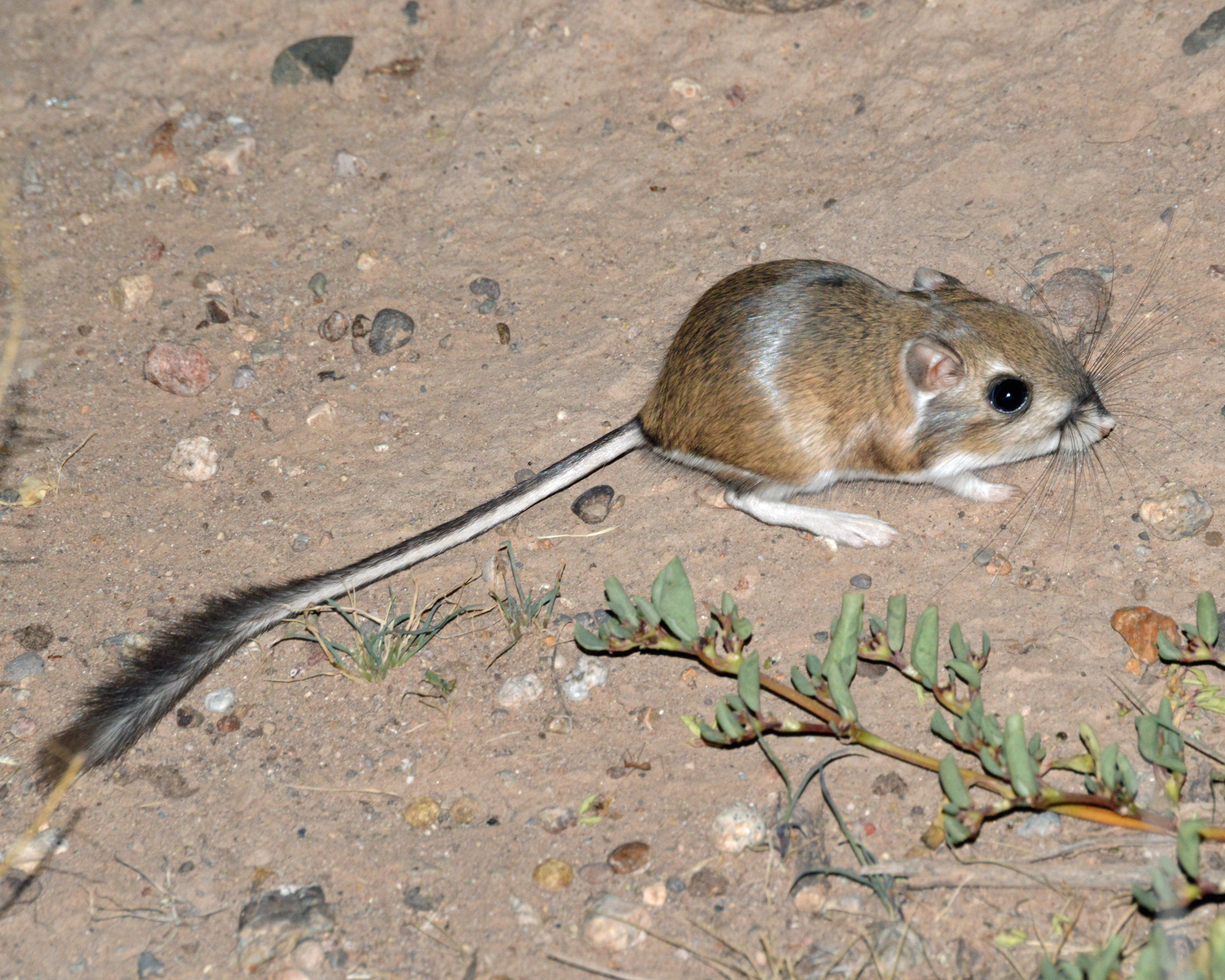 Photograph taken at night by using a headlamp to spot "eye shine" Luna County New Mexico.